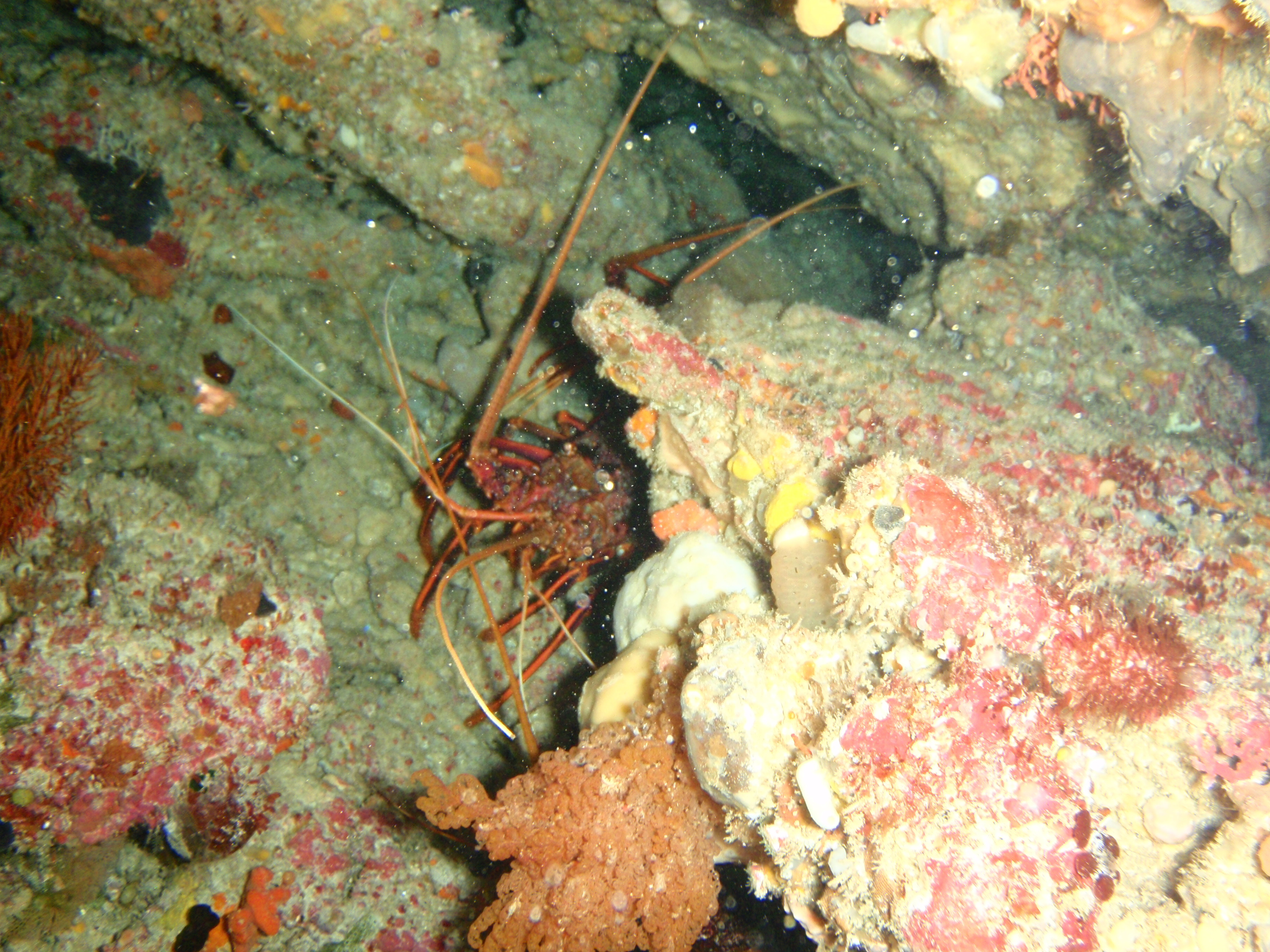 Western Rock lobster at Rottnest Island